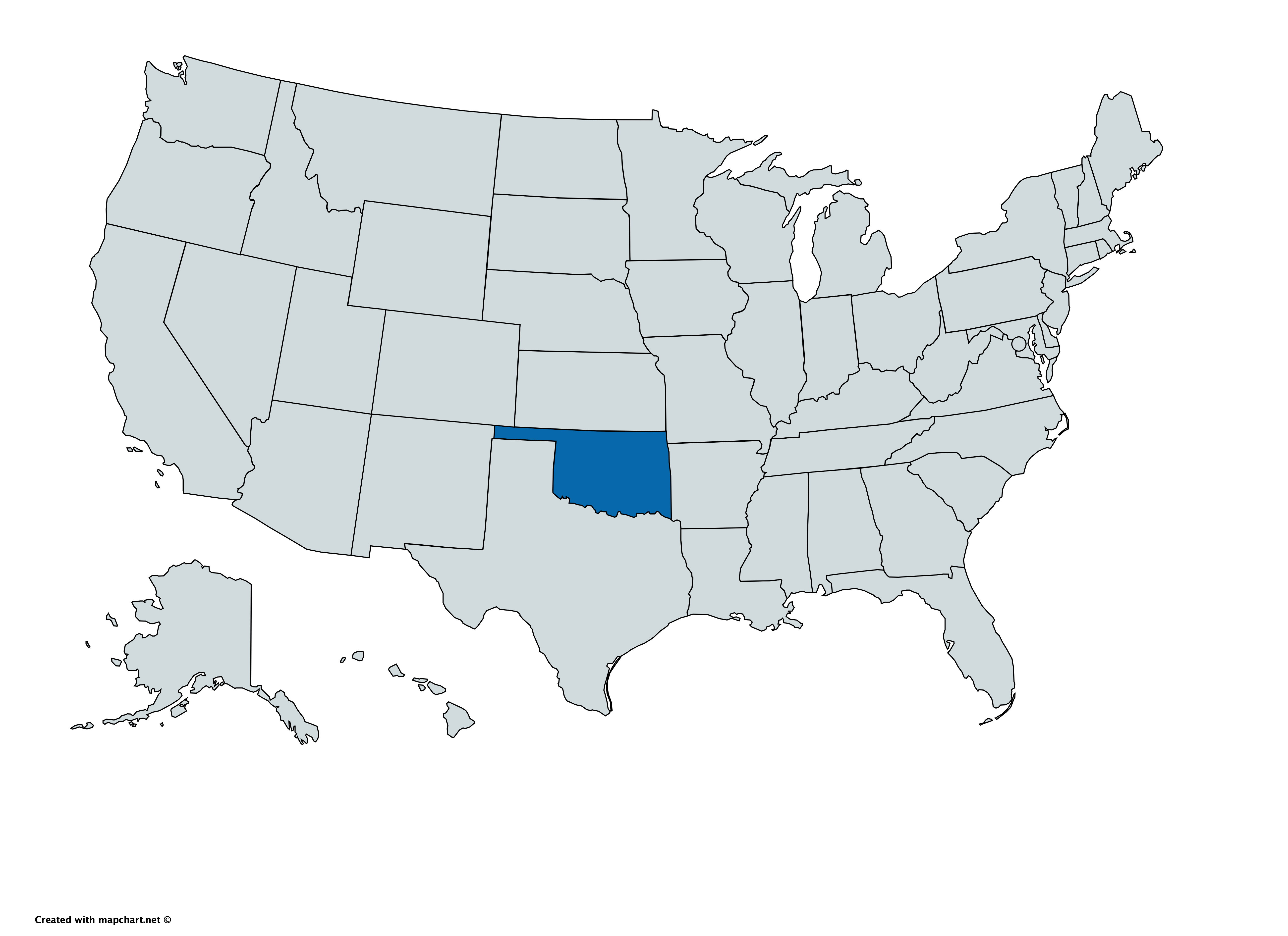 Kanye West ballot access as of July 19th, 2020.